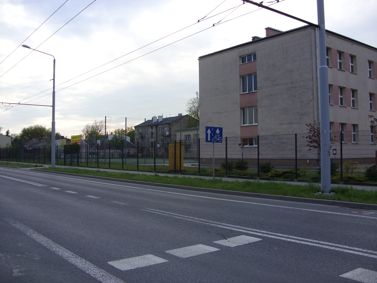 School Complex at Krochmalna Street in Lublin. During World War II, the area of the German Nazi transition camp. Krochmalna Street 31, Lublin. In this place was the German Nazi transit camp in Lublin during the Second World War and the occupation of Poland by the Germans in 1939-1945. The camp functioned in 1940-1944 in Lublin, at 31 Krochmalna St. The second German camp was also located at Krochmalna St. 6, in Lublin. The camp's daily condition was 2,500 people. Prisoners were men, women and children of all ages. The task of these transit camps in Lublin was to prepare transports of the workforce sent to slave forced labor in the Third German Reich. Over 60,000 people passed through these camps during World War II. Displaced from the pacified villages of the Zamość region, near Biłgoraj, Kraśnik and others, were brought to the camps. Currently, the School Complex in Lublin operates in this area.